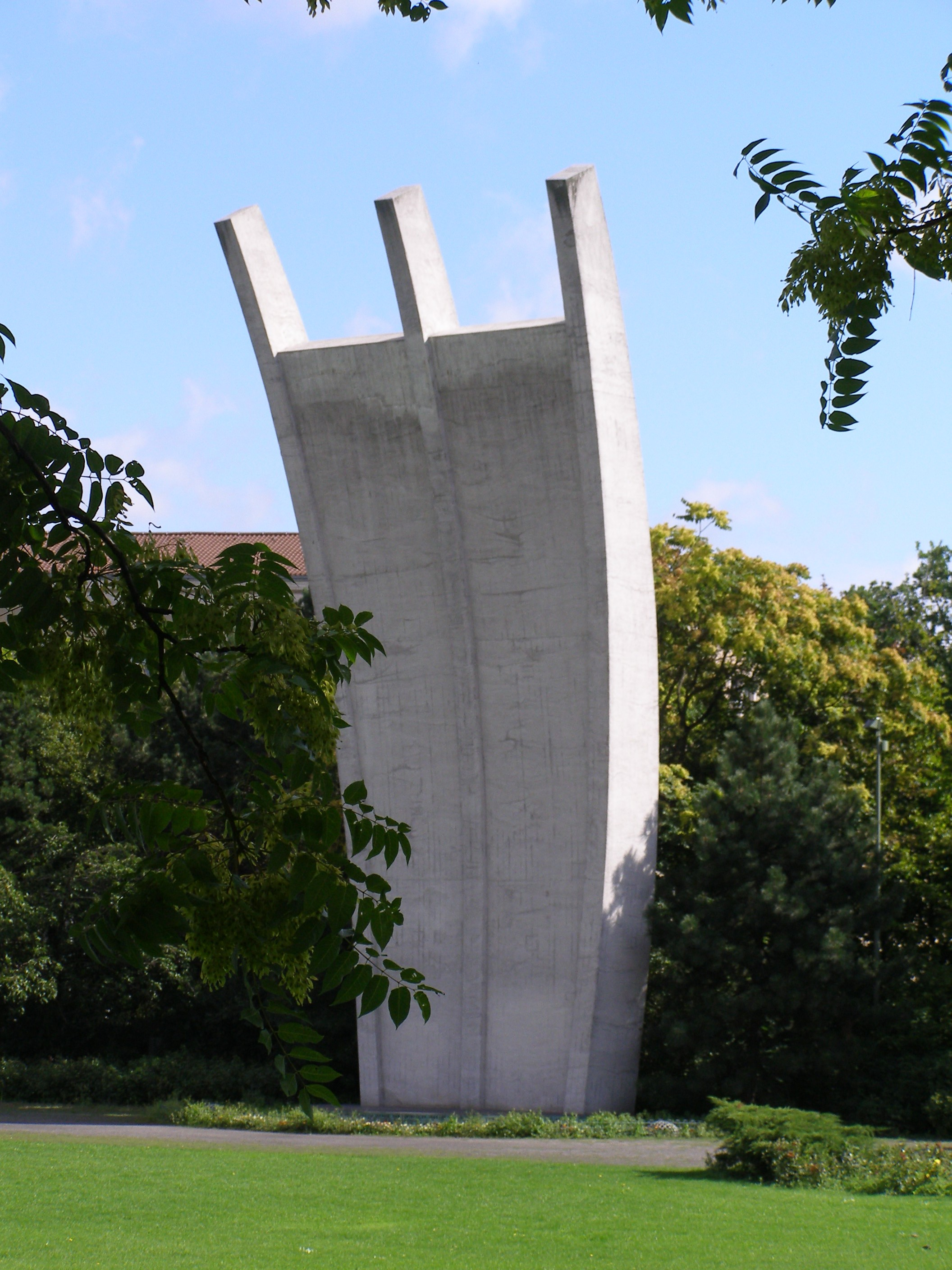 Airport / Flugplatz / Letiště Berlin-Tempelhof Memorial of the Air lift 1948-49 / Denkmal der Luftbrücke 1948-49 / Památník leteckého mostu 1948-49